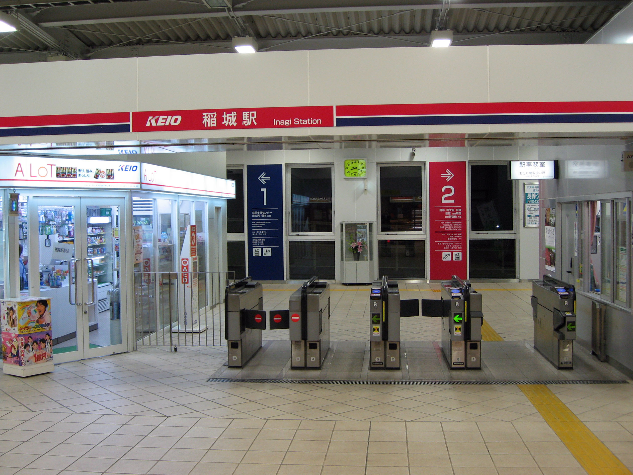 Gate of Inagi Station on Keio Sagamihara Line in Inagi, Tokyo, Japan.